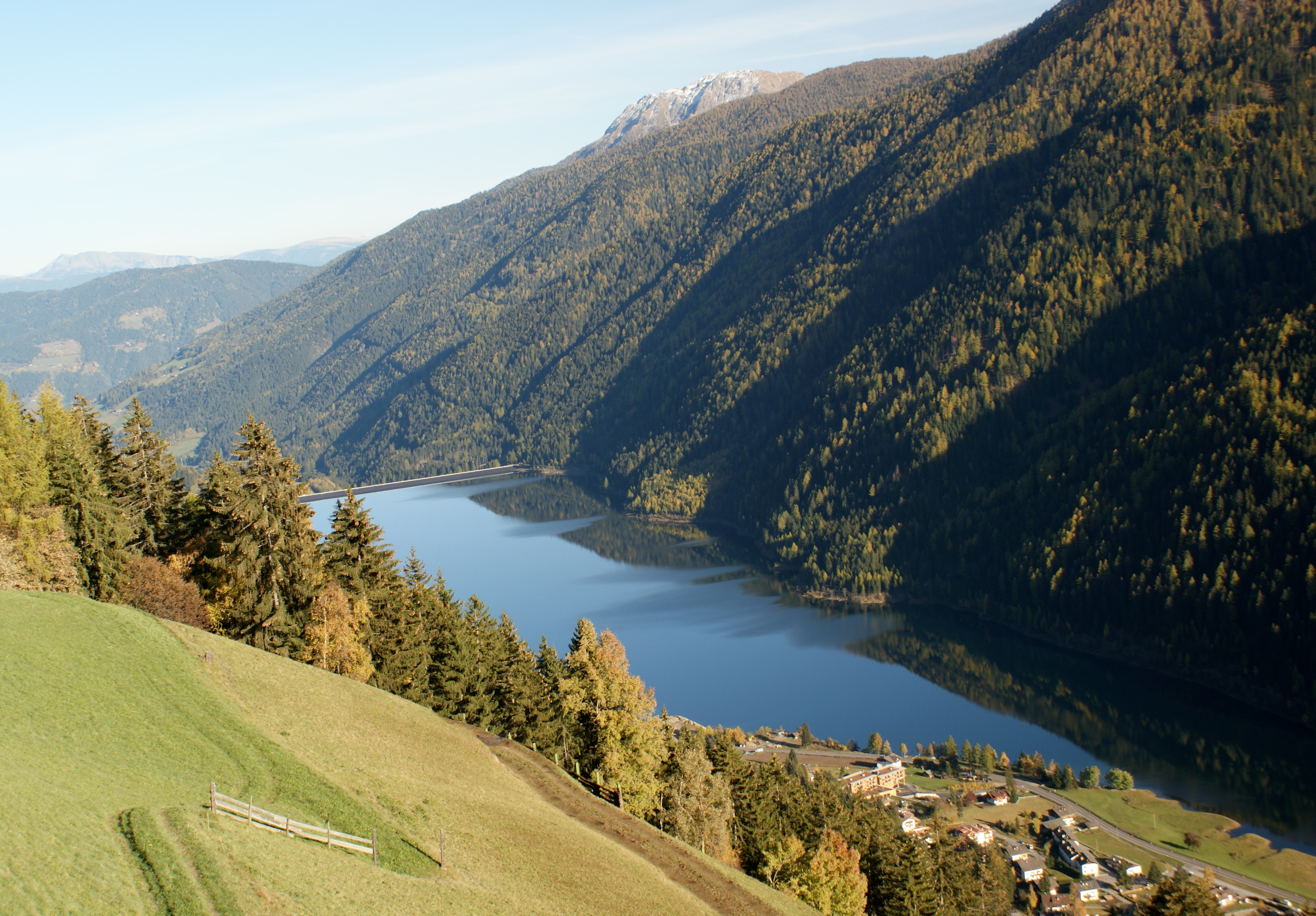 Zoggler Lake in the Ulten Valley (South Tyrol)